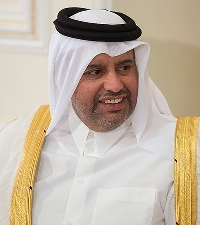 Ahmed bin Jassim Al Thani the Appointed Minister of Economy and Trade of Qatar meets Mohammad Javad Zarif in Tehran- 5 November 2017